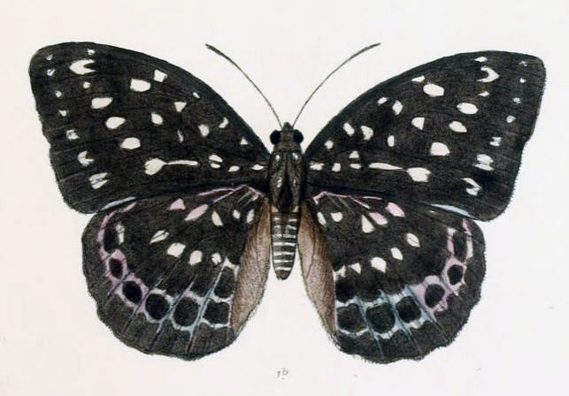 Adolias khasiana